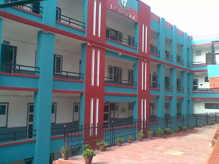 This is photo of Liverpool International College.